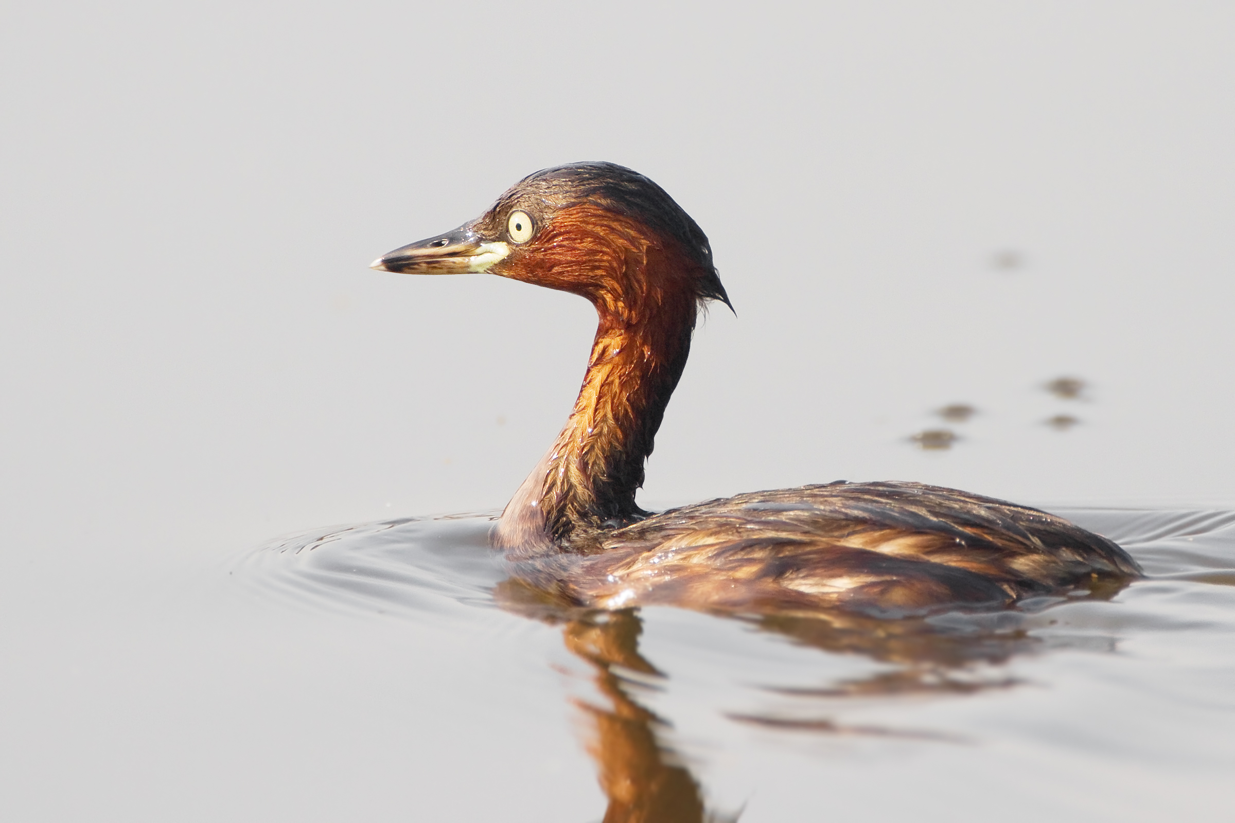 Little Grebe (Tachybaptus ruficollis), Bueng Boraphet, Phra Non, Nakhon Sawan, Thailand